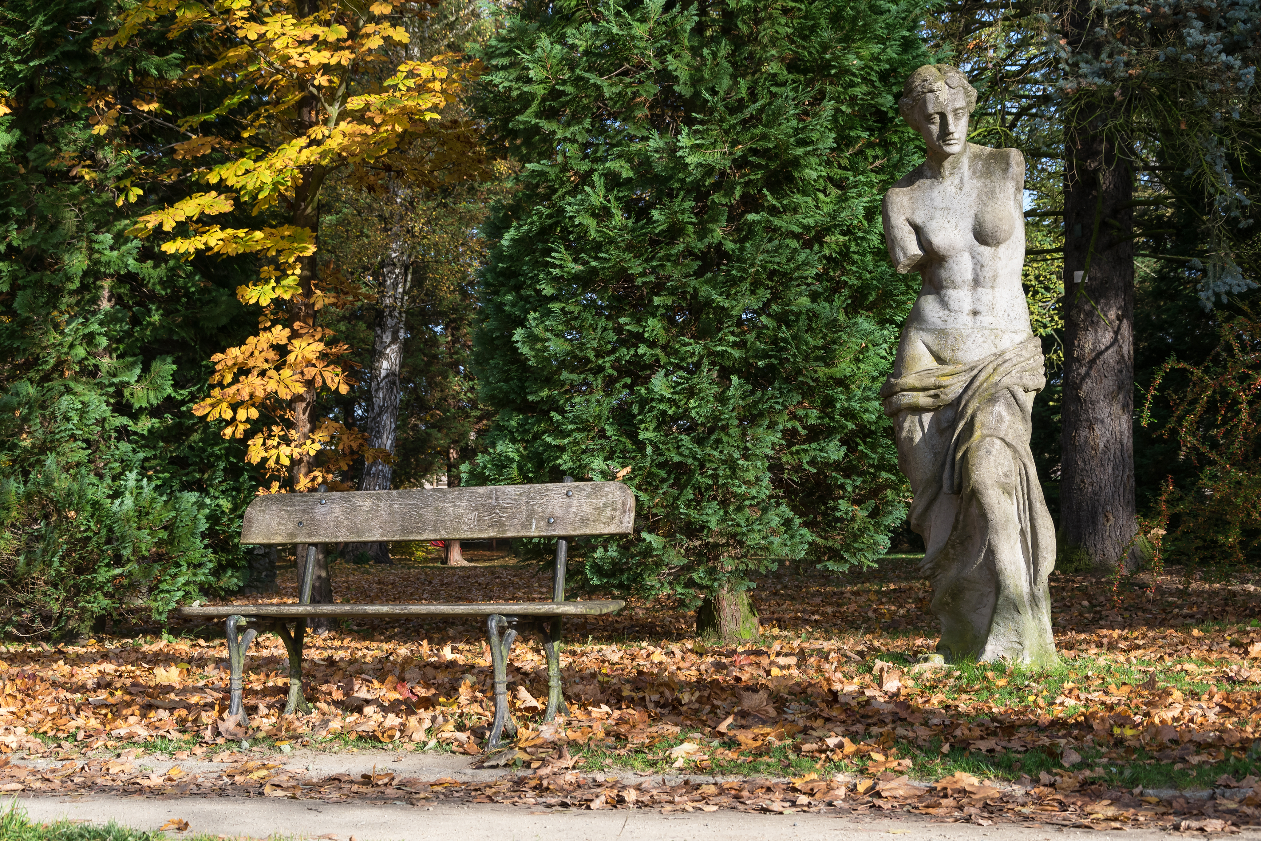 Park by the palace in Trzebieszowice Ta fotografia przedstawia zabytek wpisany do rejestru zabytków pod numerem ID 592870